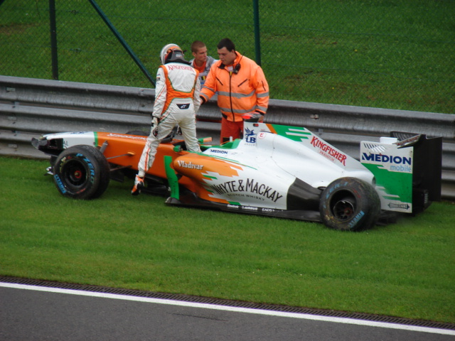 Formula 1 Spa 2011 accident in qualifying Adrian Sutil